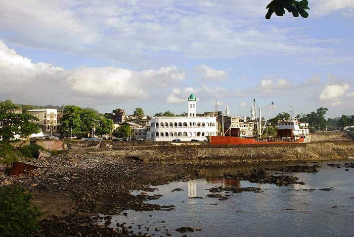 Centre of the Capital of the Comoros. With Central Mosque and Harbor Bay.